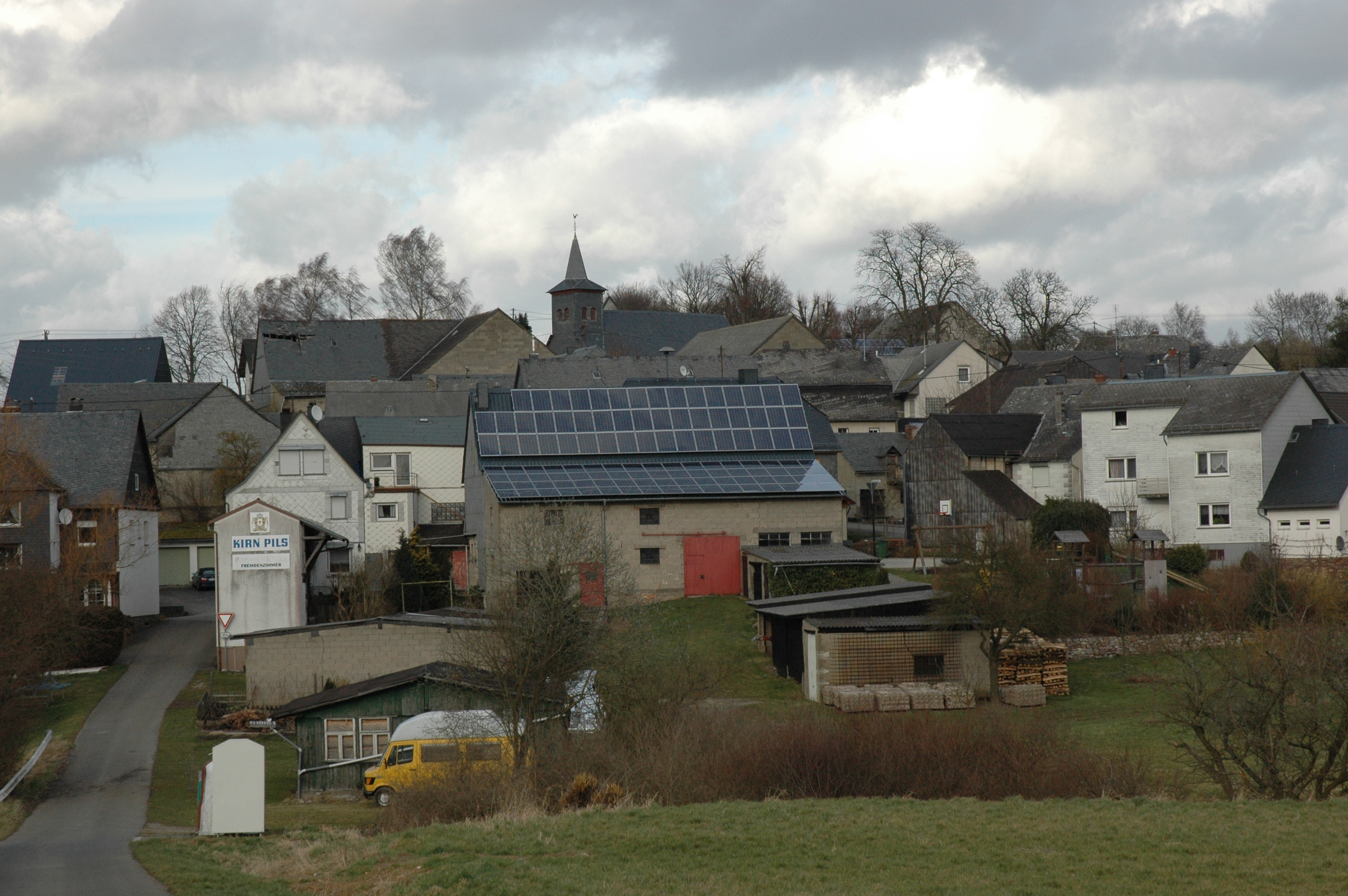 Schnorbach in the Hunsrück landscape, Germany.